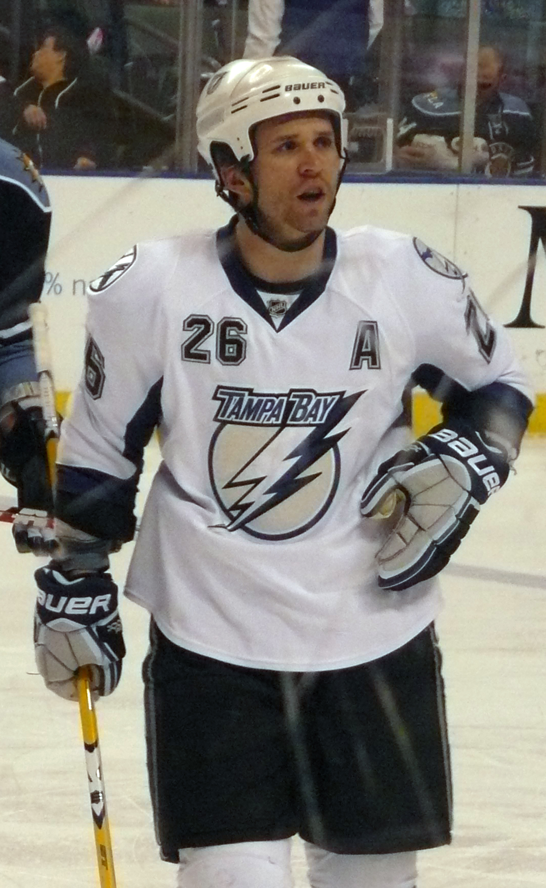 Martin St. Louis of the Tampa Bay Lightning skates during a game against the Florida Panthers in Sunrise, FL on 3/21/2010.